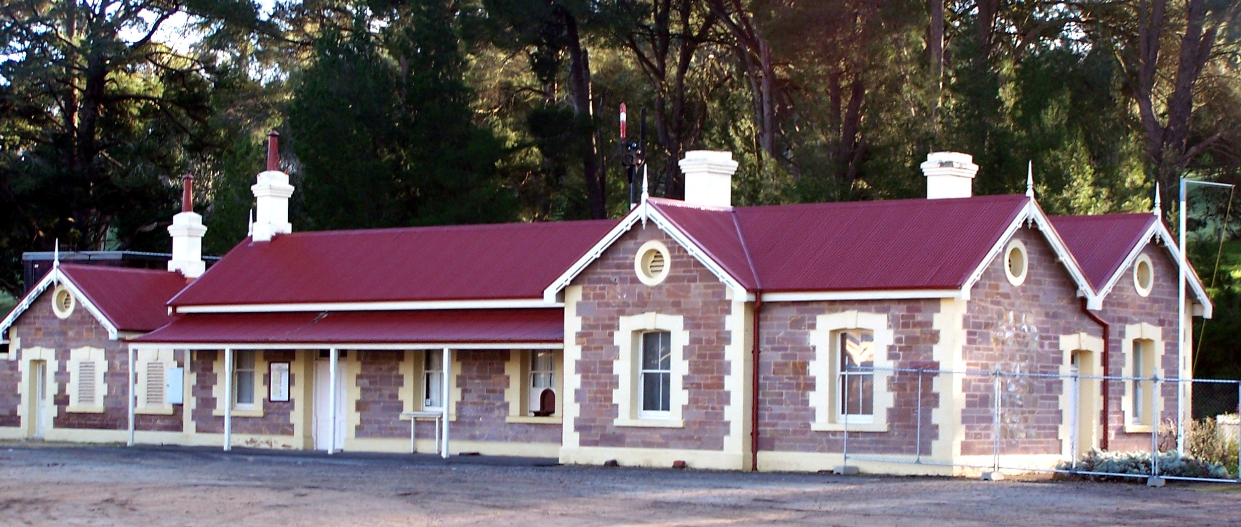 See above